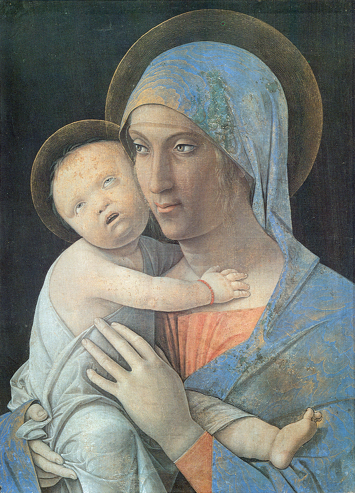 Virgin and Child